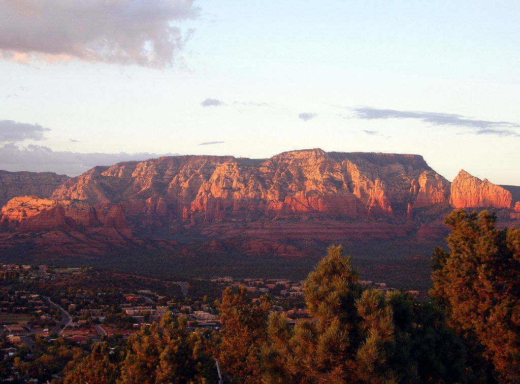 View of Sedona from the Airport Rd. lookout at sunset.